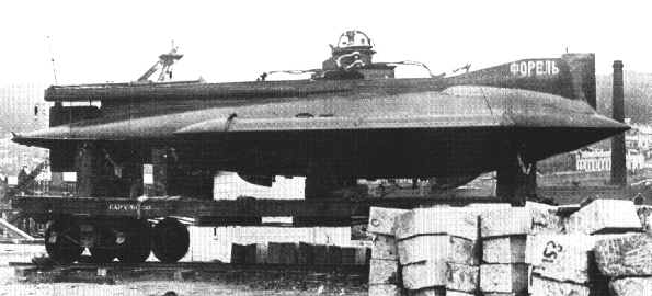 First german submarine, built in 1903 year and served in russian fleet as "Forelle" until 1907.